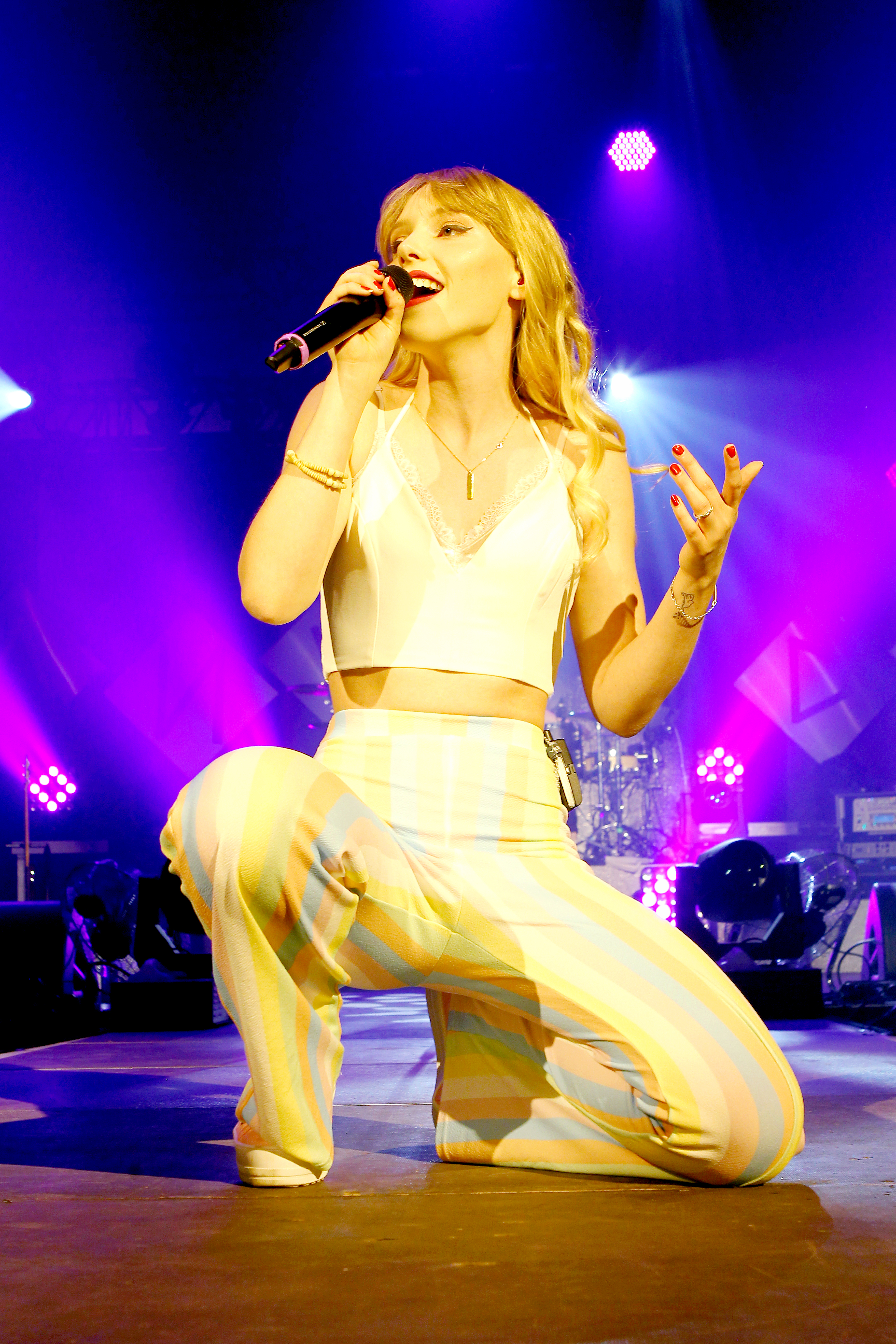 Lina Plays German Popmusic